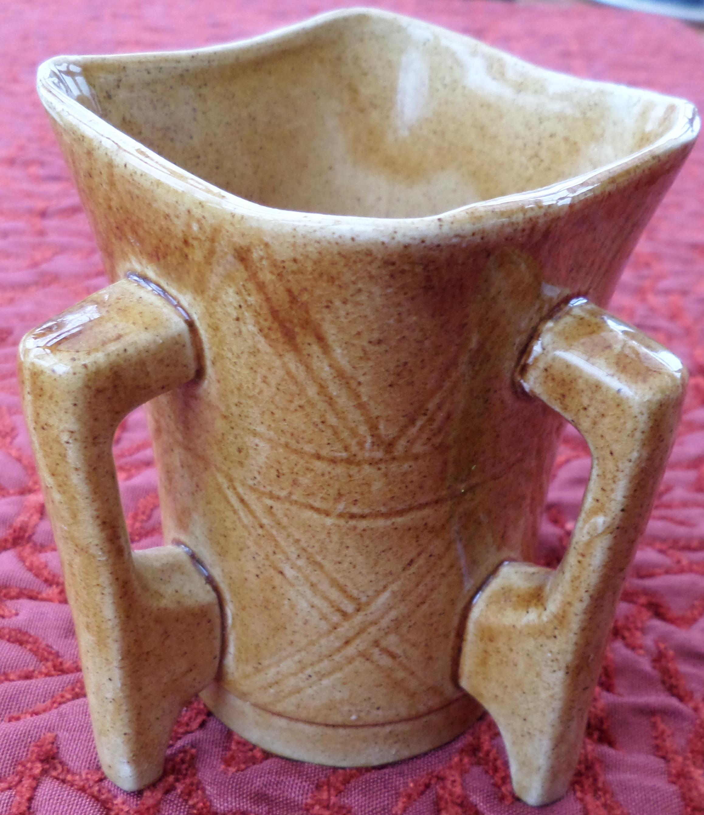 Mether - side view. A mether is a traditional Celtic drinking vessel once used to consume mead at feasts.